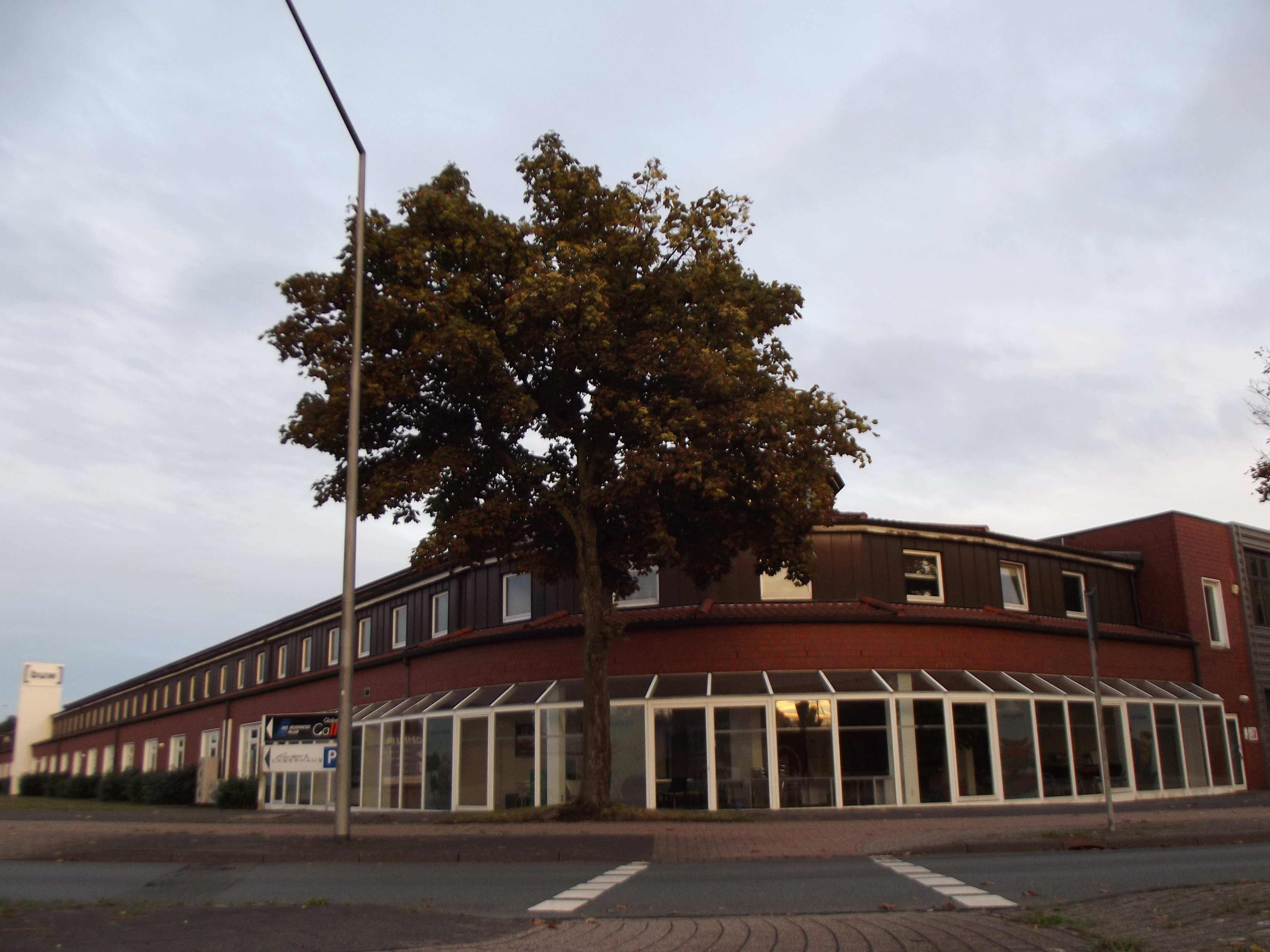 buw building muenster